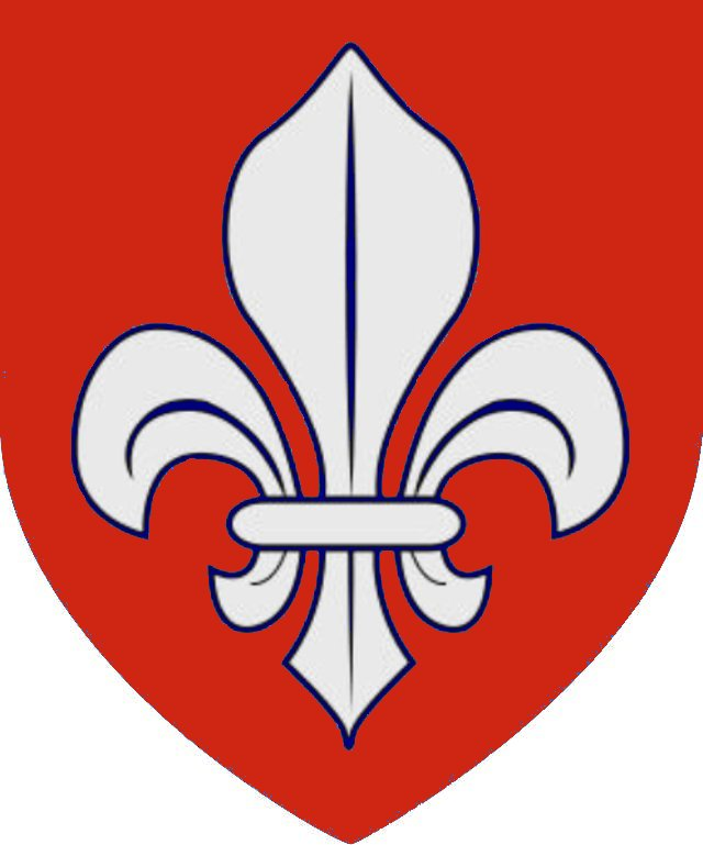 Aguillon Coat of Arms. Blazon: Gules, a fleur de lis argent.[1]